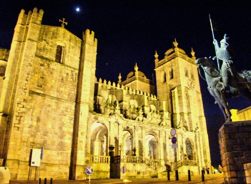 Sé do Porto